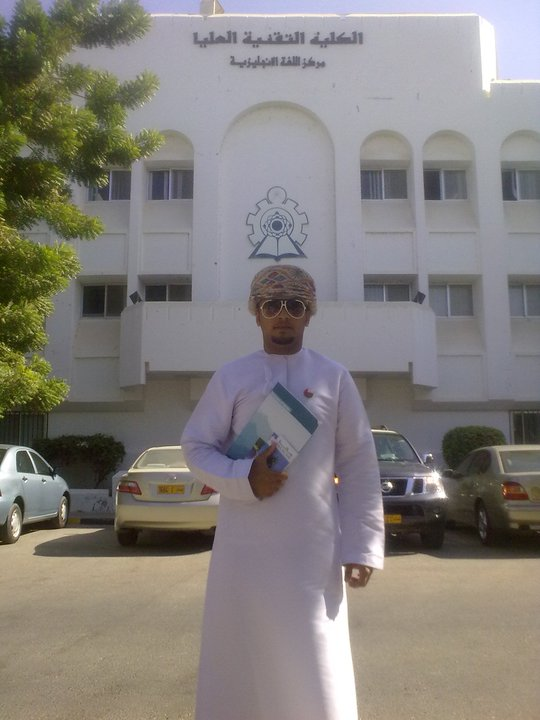 Me in-front of the old building of HCT.